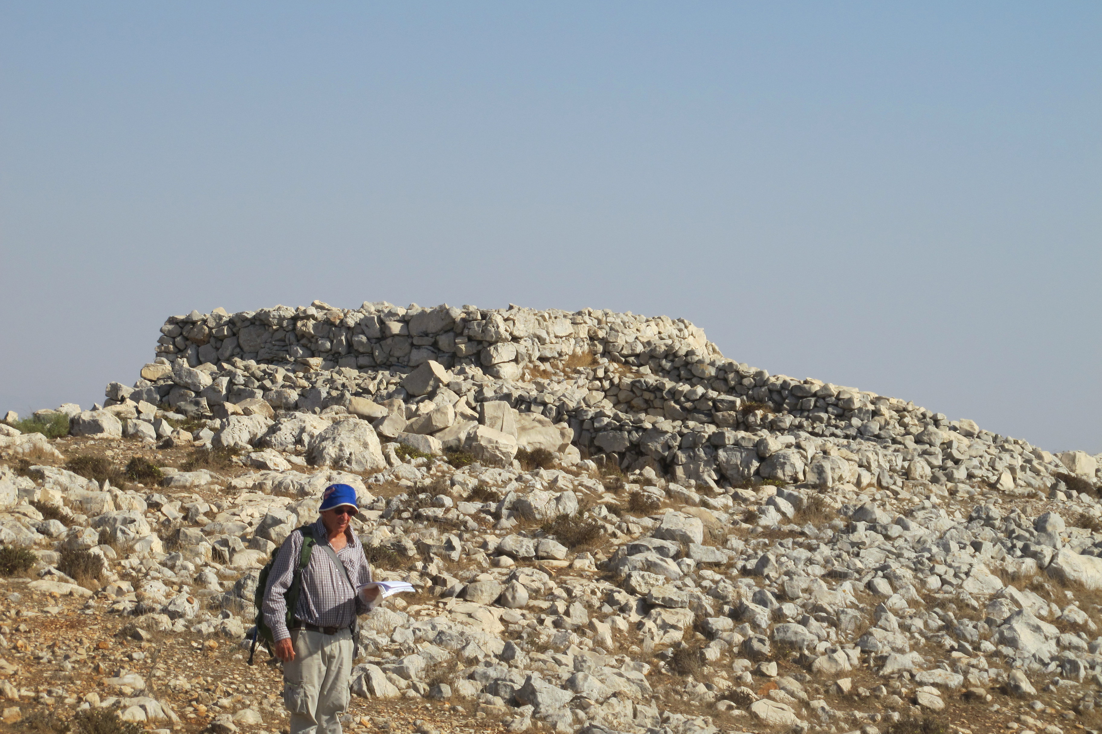 Altar of Mount Ebal